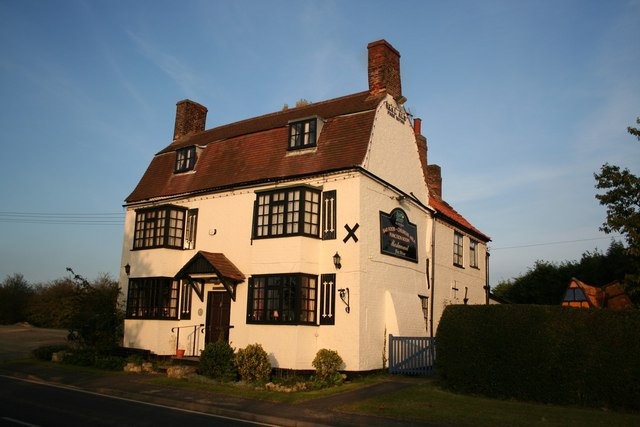 Robin Hood and Little John Historic, early 19th century coaching inn at Aslackby called the Robin Hood and Little John. All you men who think it good Come have a drink with Robin Hood If Robin Hood abroad has gone Then have a drink with Little John